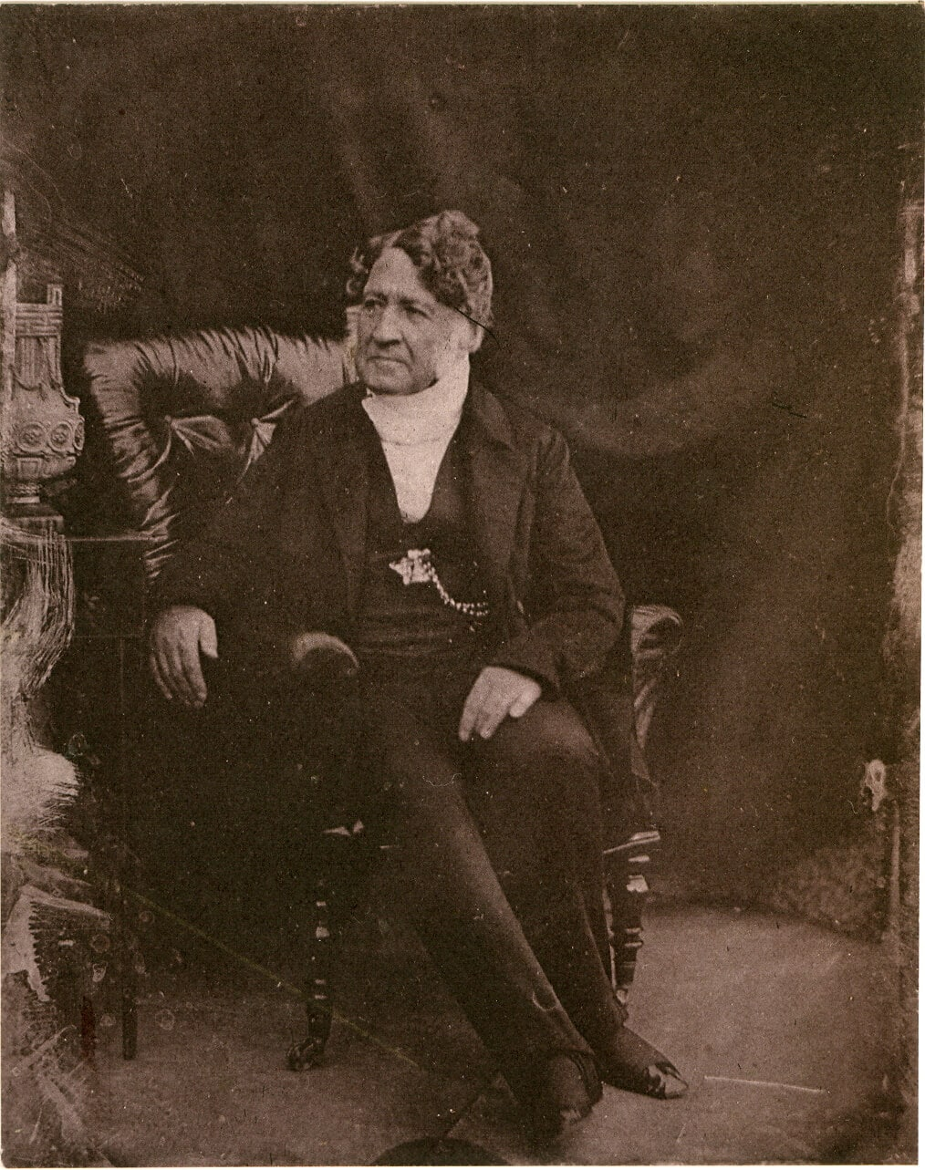 Portrait of the King of the French Louis Philippe I (1773-1850). This is one of only two known photographs of him.